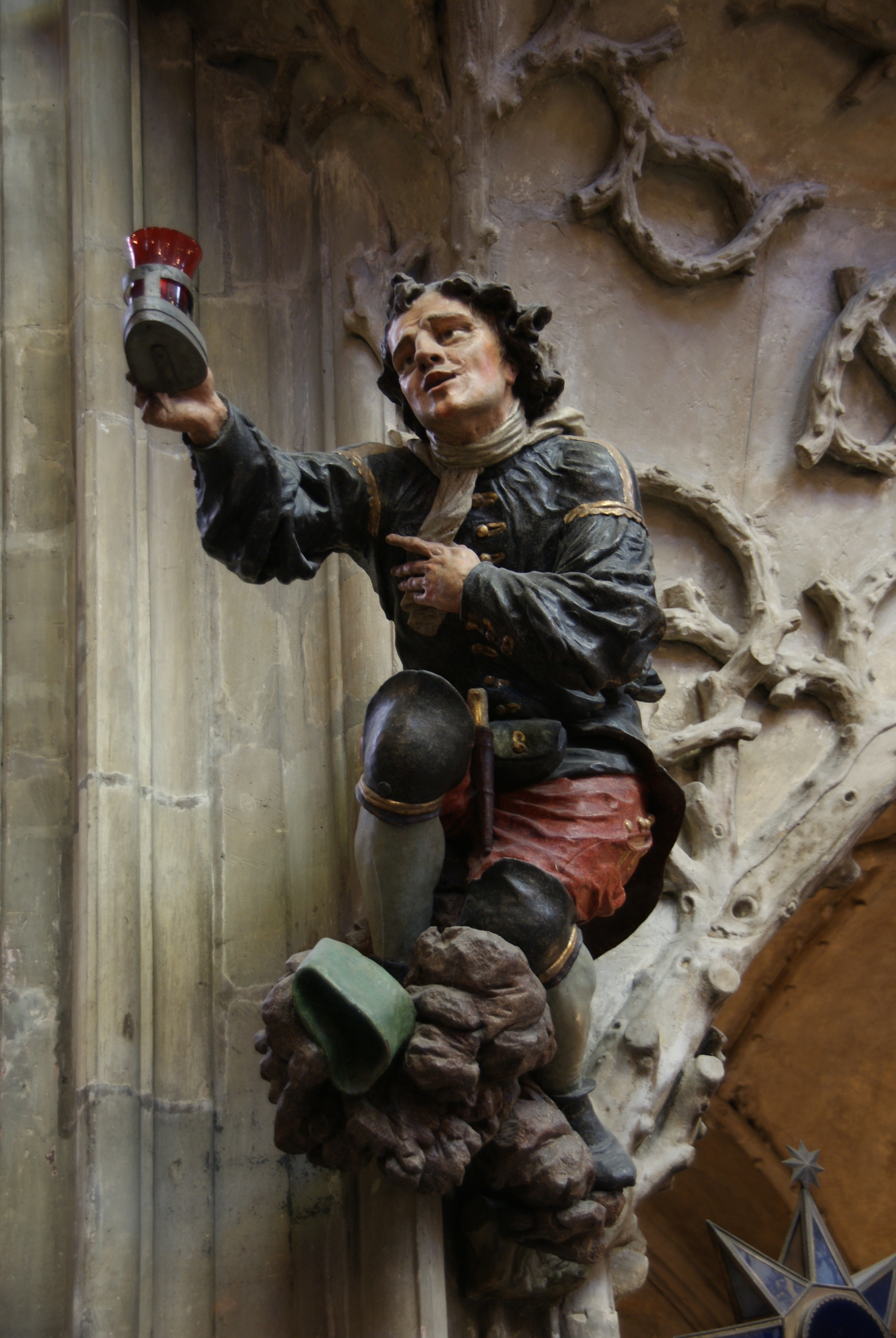 St. Vitus Cathedral (interior), Prague